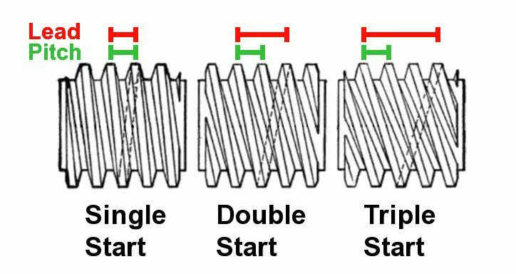 Diagram showing the difference between "lead" and "pitch" in screws. The lead is the axial distance the screw moves in one revolution. The pitch is the axial distance between adjacent threads. They are the same in "single-start" screws, but in "multiple-start" screws the lead is equal to the pitch muliplied by the number of "starts". Alterations to original drawing: Removed dimensioning and added colored labels